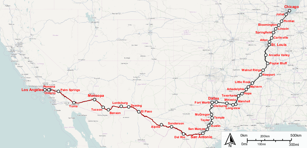 Amtrak Texas Eagle